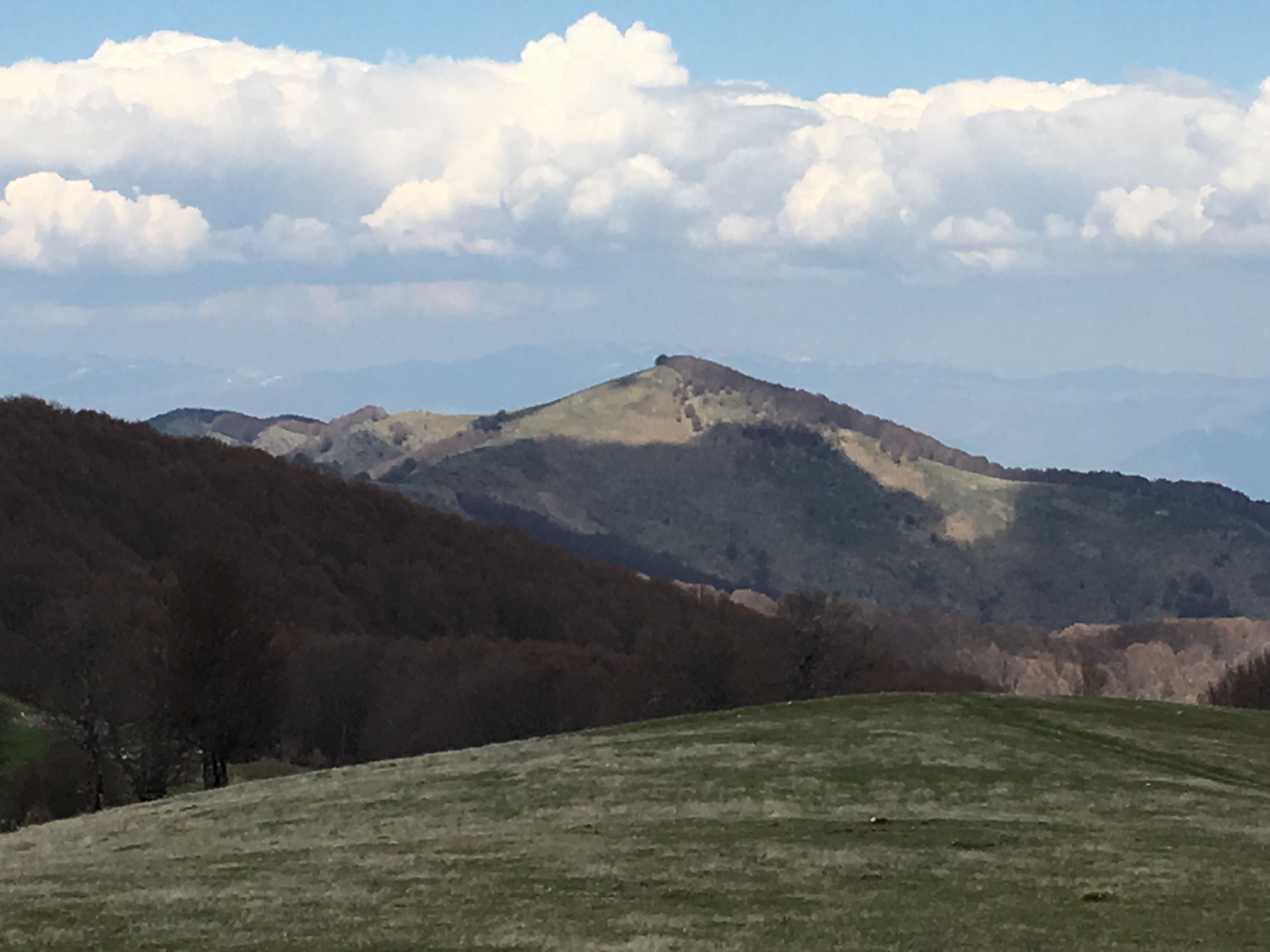 View of the peak Čupino Brdo (1,725 m) from the peak Bel Kamen (1,707 m) on Plačkovica, Macedonia